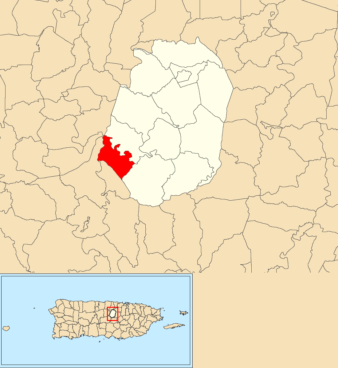 Magueyes, Corozal, Puerto Rico locator map